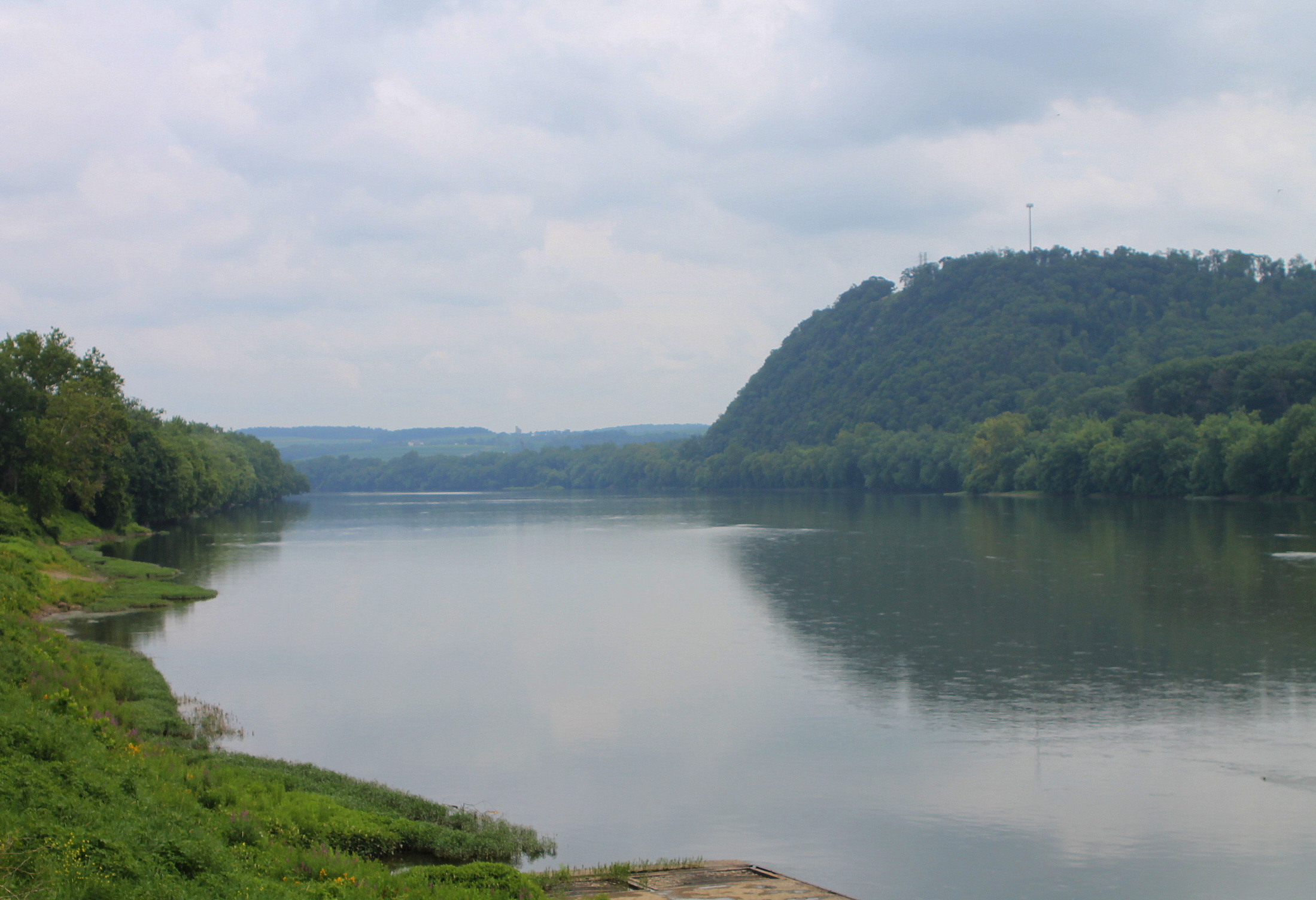 The Susquehanna River looking upstream in Danville